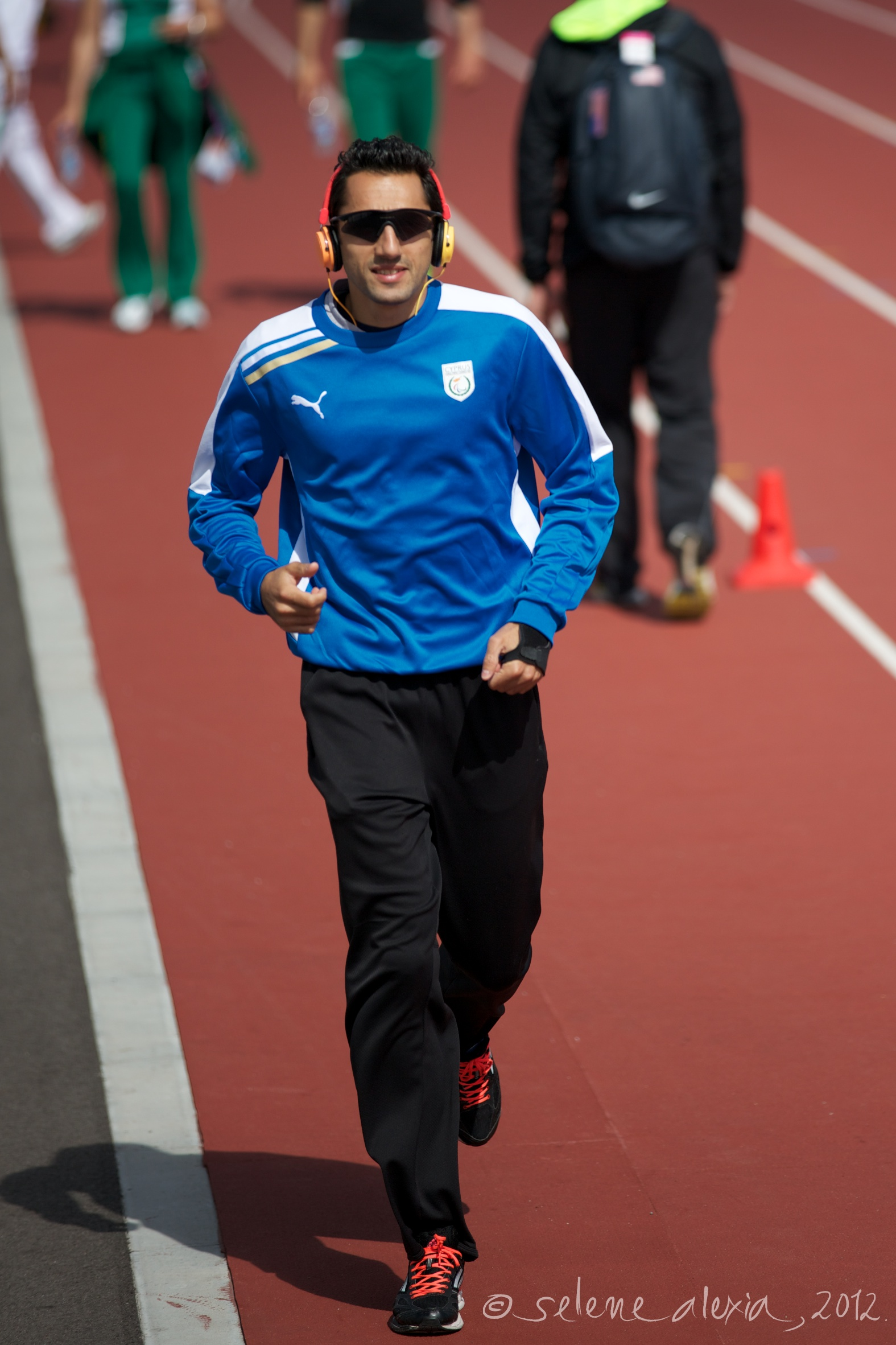 Antonis Arestis training for the London 2012 Paralympics. Photo by Selene Alexia.